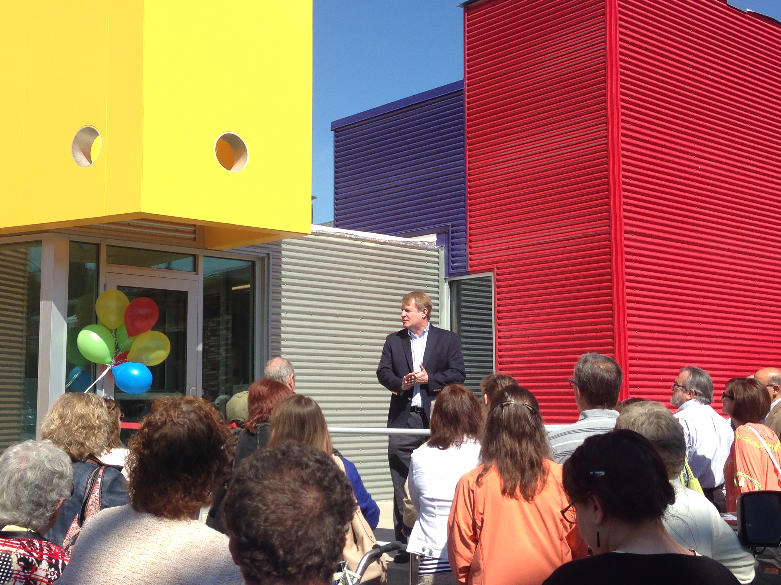 Allegheny County Executive Rich Fitzgerald speaks at the reopening of the Sharpsburg Community Library.